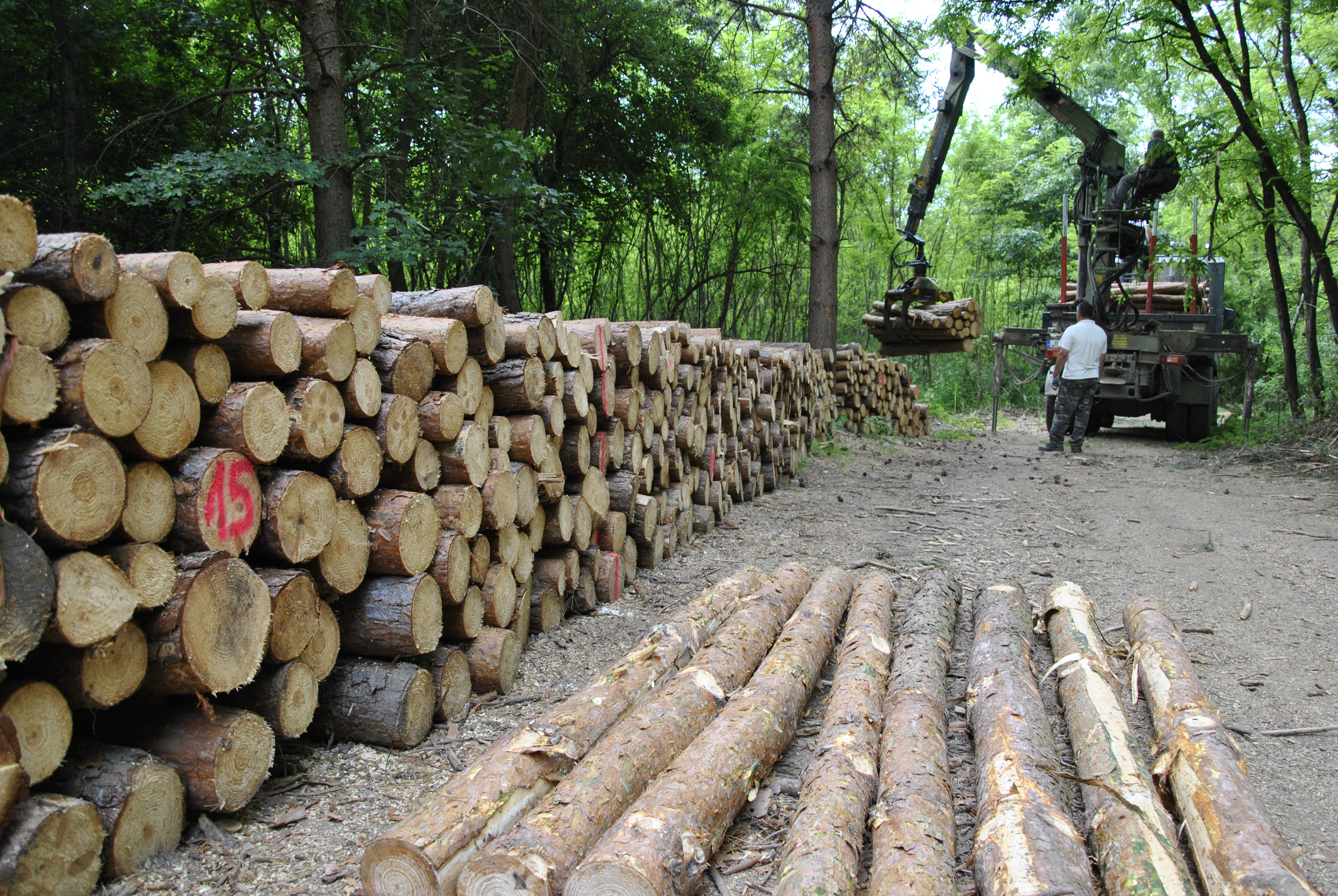 Pinus sylvestris prepared for transport, Hungary